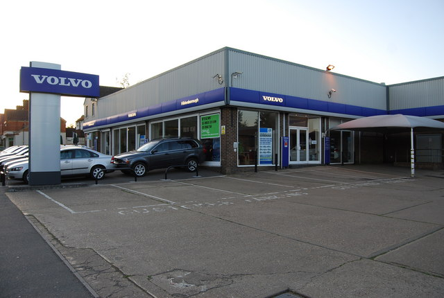 Volvo Car Dealership, London Rd